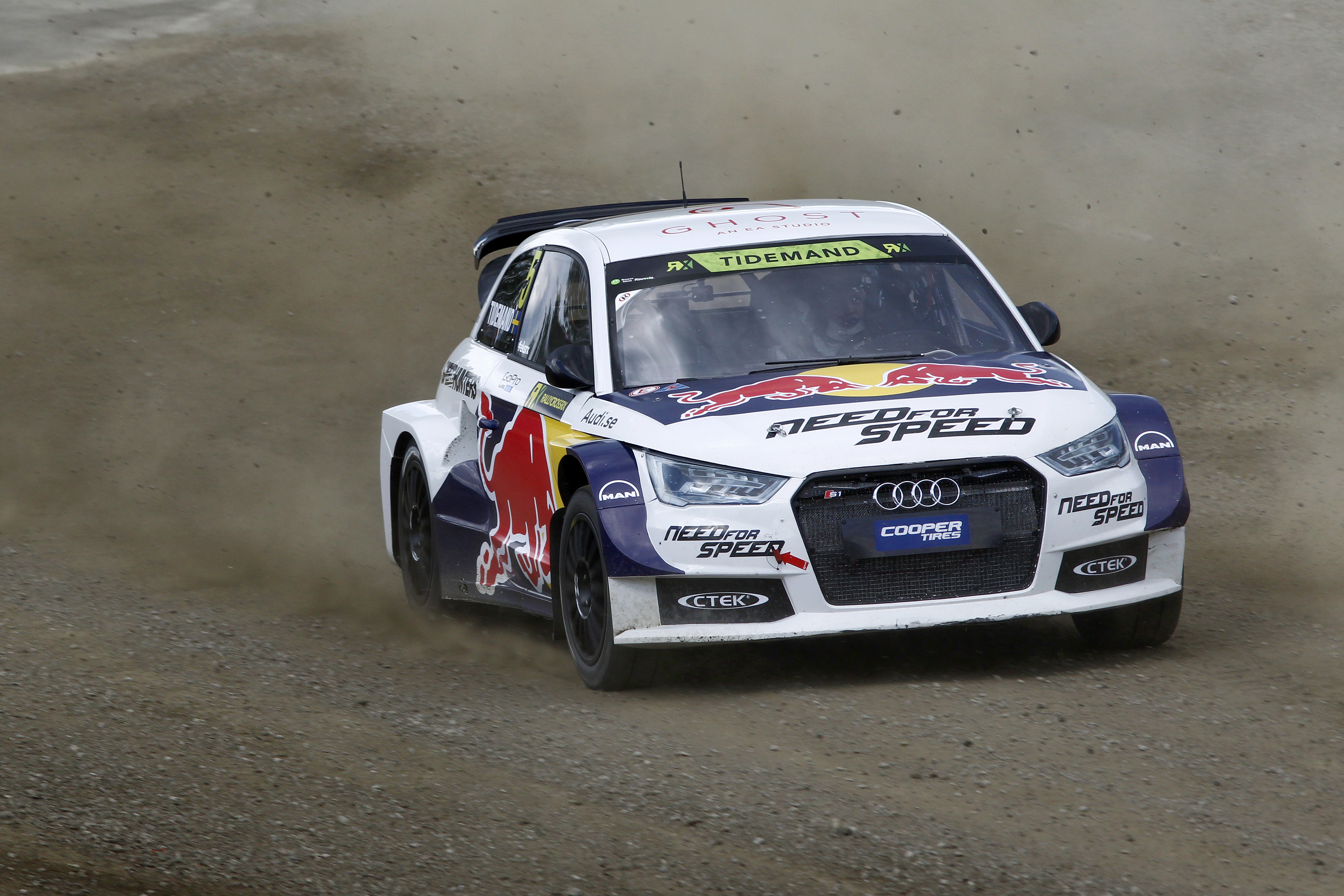 2014 FIA World Rallycross Championship Round 04 Kouvola, Finland 28th & 29th June 2014 Worldwide Copyright: EKS/McKlein